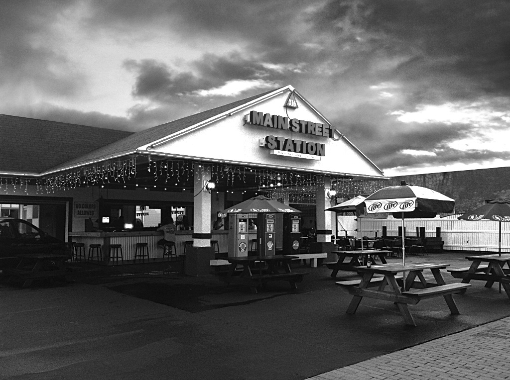 The property located at 316 Main Street Station, Daytona Beach which was once owned and operated by the late Bill France Sr., founder of NASCAR, still operating today as an event and entertainment venue.